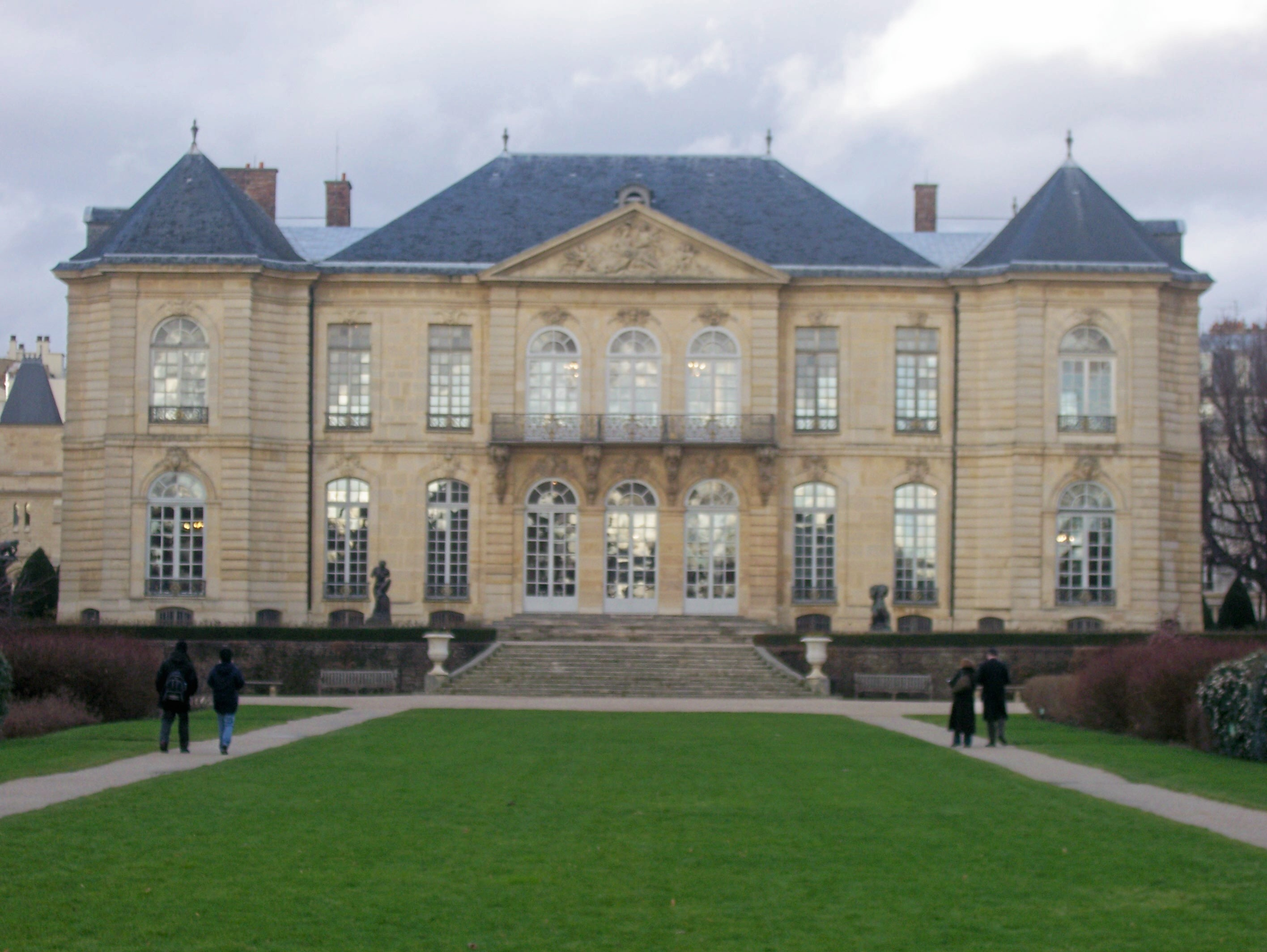 View of Hôtel Biron.